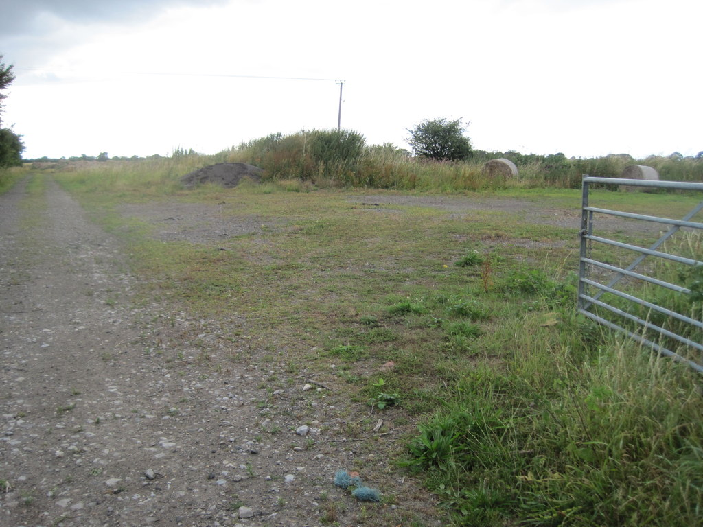 Menthorpe Gate railway station (site), YorkshireBelieved to have been opened in 1851 by the North Eastern Railway on the line from Market Weighton to Selby, this station closed to passengers in 1953 and completely in 1964. View west towards Cliffe Common and Selby. The eastbound platform was here, the westbound platform behind the photographer and on the opposite side of the road.